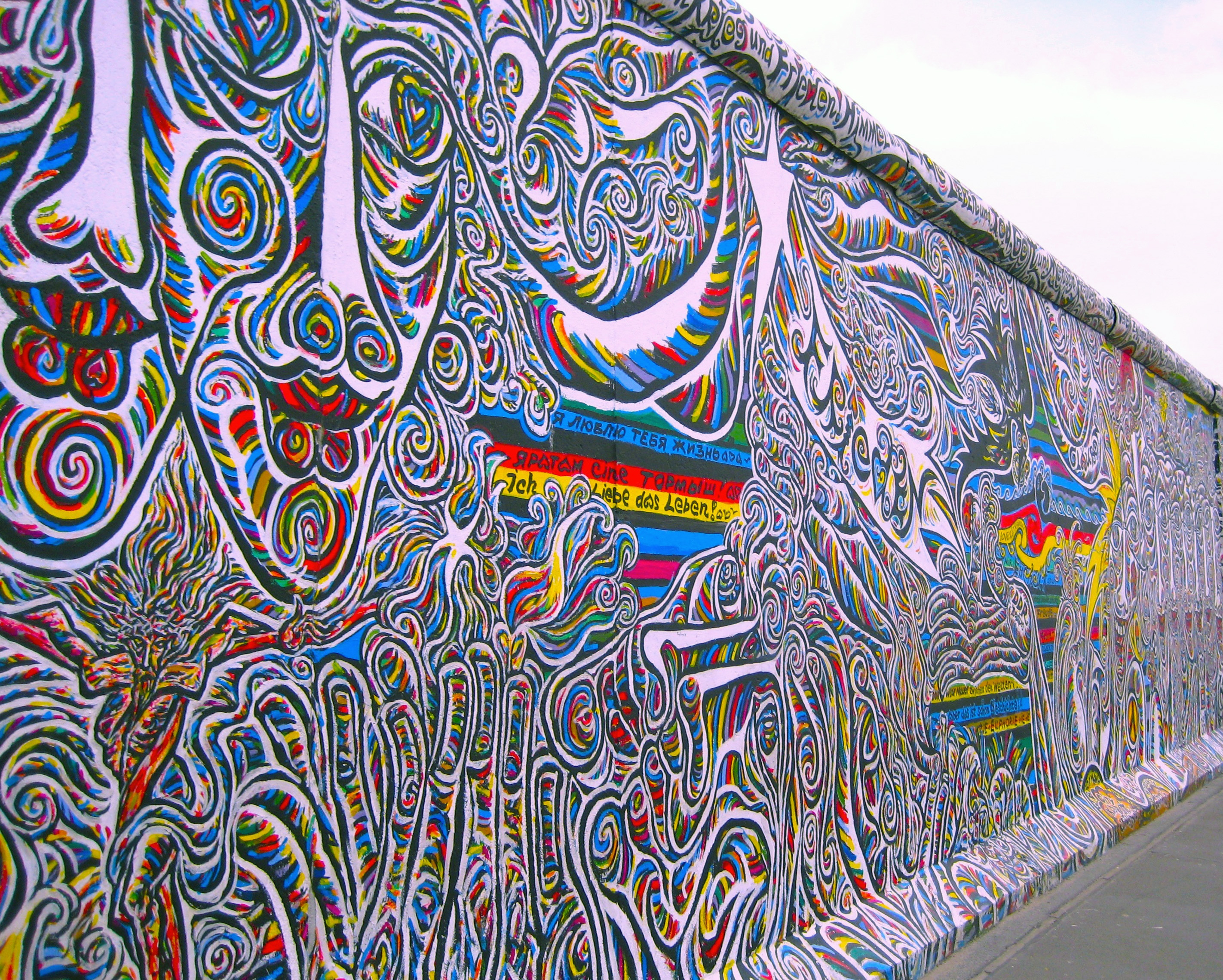 Berlin Wall (Germany, 2012)